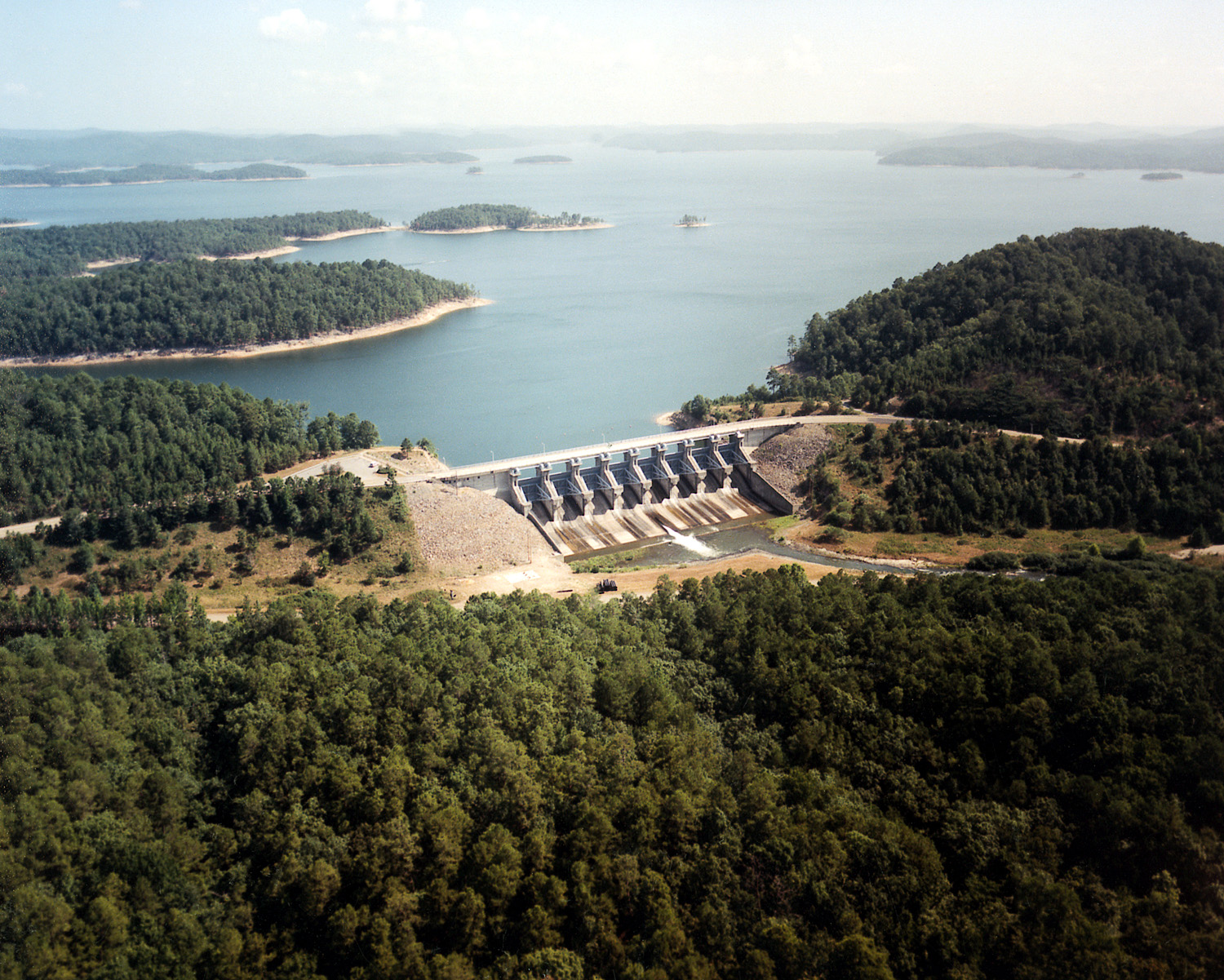 Aerial view of the spillway at Broken Bow Dam on Broken Bow Reservoir on the Mountain Fork River in McCurtain County, Oklahoma, USA. This photograph shows only the spillway. The main dam and hydroelectric generation plant are located about 1.5 miles (2.5 km) to the east of this spillway. The U.S. Army Corps of Engineers constructed the dams in 1968 for flood control, water supply, and hydroelectric power generation. Coordinates: 34°9′25.61″N 94°42′14.72″W / 34.1571139°N 94.7040889°W